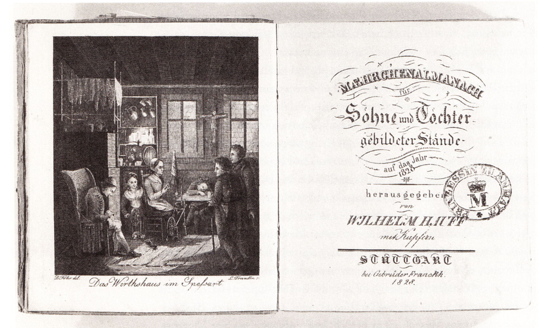 Frontispiece and title of Wilhelm Hauffs "Märchenalmanach"